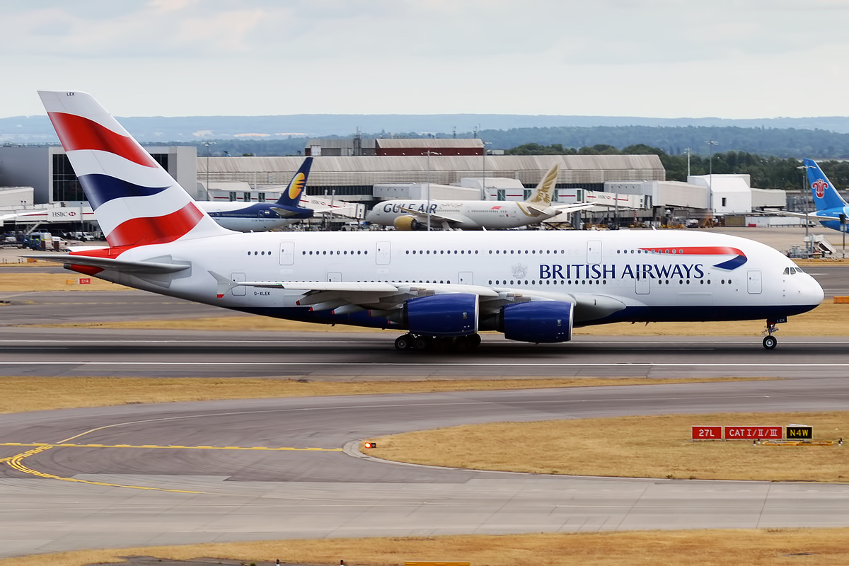 British Airways, G-XLEK, Airbus A380-841